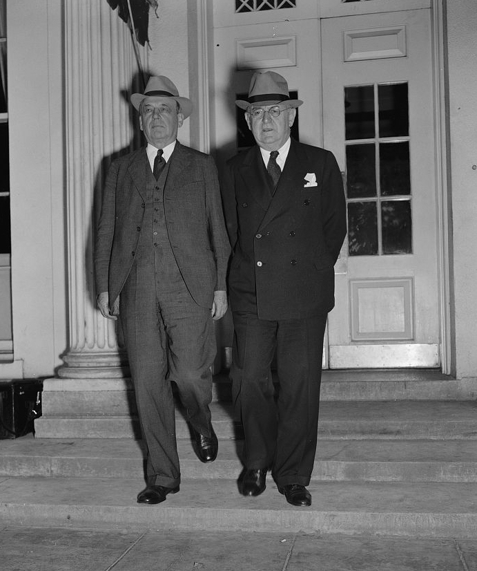 Charles Edward Merriam (left) and Louis Brownlow, members of the Committee on Administrative Management (commonly known as the Brownlow Committee), leave the White House on September 23, 1938, after discussing government reorganization with President Franklin D. Roosevelt.